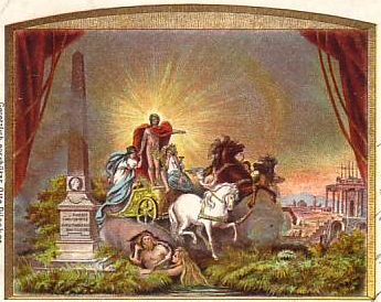 Painted curtain at the Royal Theatre of Hanover, Germany